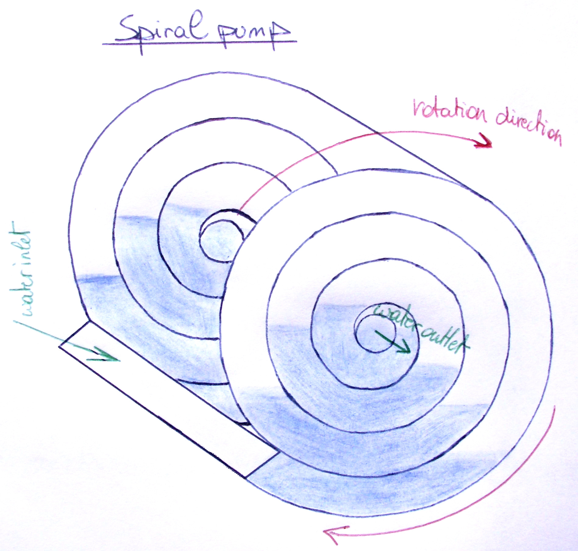 A hand drawn schematic of a coil pump. The schematic was based on the image at .Perhaps that the next version of the image is best no longer see-trough; instead the backside and sides should be hidden entirely by a orange color.